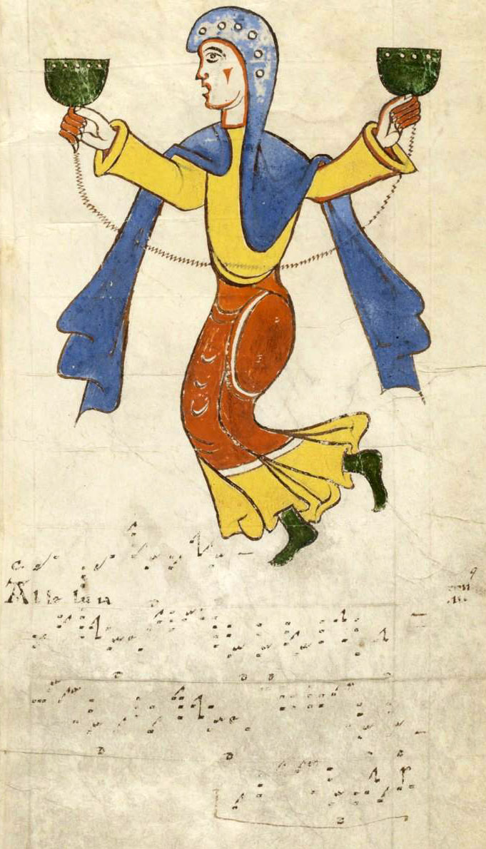 Beginning of the Sequentiary—Detail of the Troper, Tonary, Sequentiary and Proser from Southwestern France, Région d'Auch (11th century)